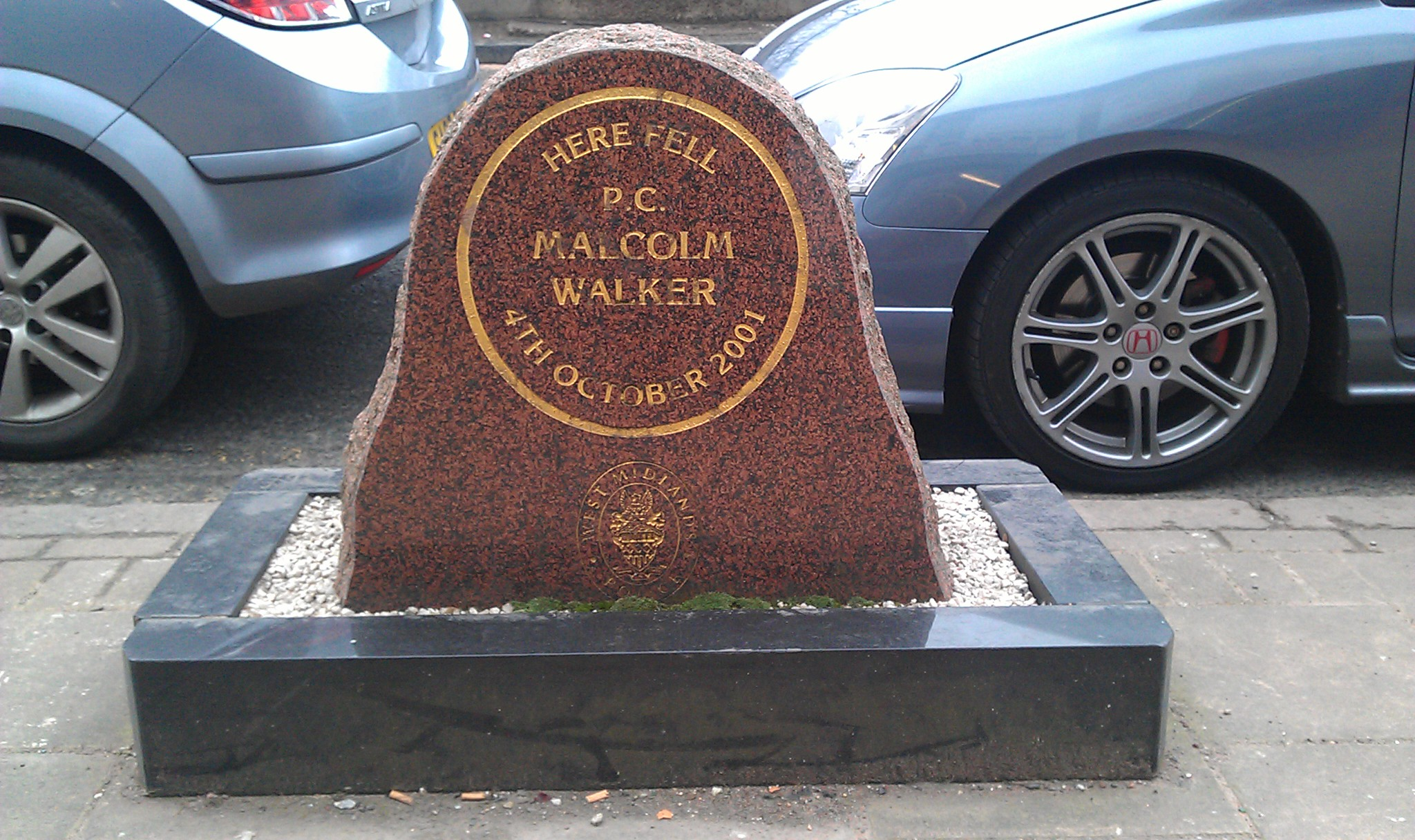 Memorial to PC Malcolm Walker, West Midlands Police, at Perry Barr, Birmingham, England. Inscription: "Here fell PC Malcolm Walker 4th October 2001 West Midlands Police" See file:PC Malcolm Walker memorial - 2.jpg for other side.